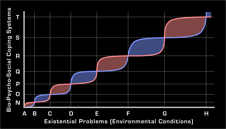 Loose adaptation of Clare W. Graves's graph of alternating express-self (pink) and sacrifice-self (blue) existential states, as seen in exhibit XII on page 187 of The Never Ending Quest. This labels the 7th and 8th states with the early GT and HU letters from before Graves formulated the six-upon-six hypothesis replacing them with A'N' and B'O', respectively.